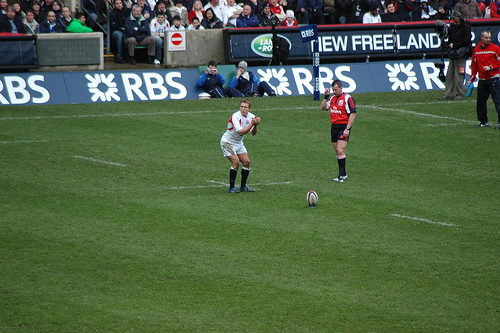 Prise le 10 février 2007 England v Italy, RBS Six Nations 2007 Jonny Wilkinson 10th March 07